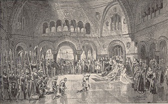 1895: Scene from J. Comyns Carr's King Arthur, sets and costumes by Sir Edward Burne-Jones.